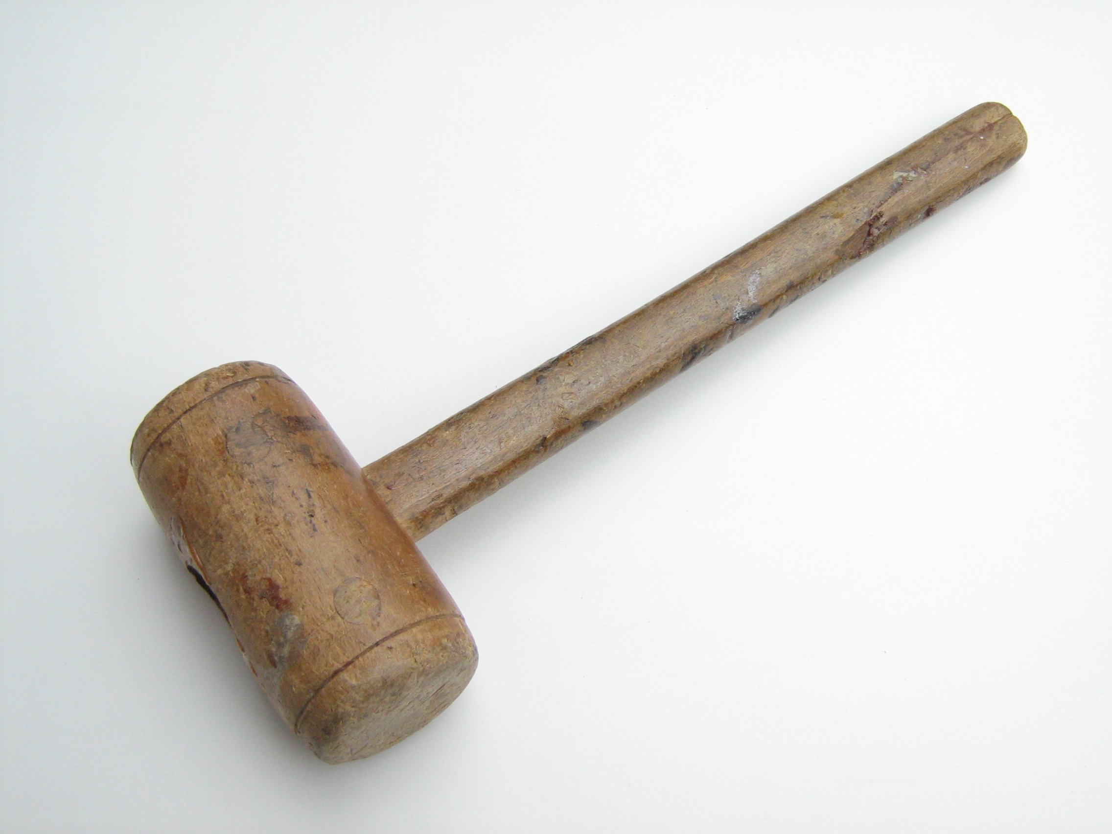 Wooden hammer.